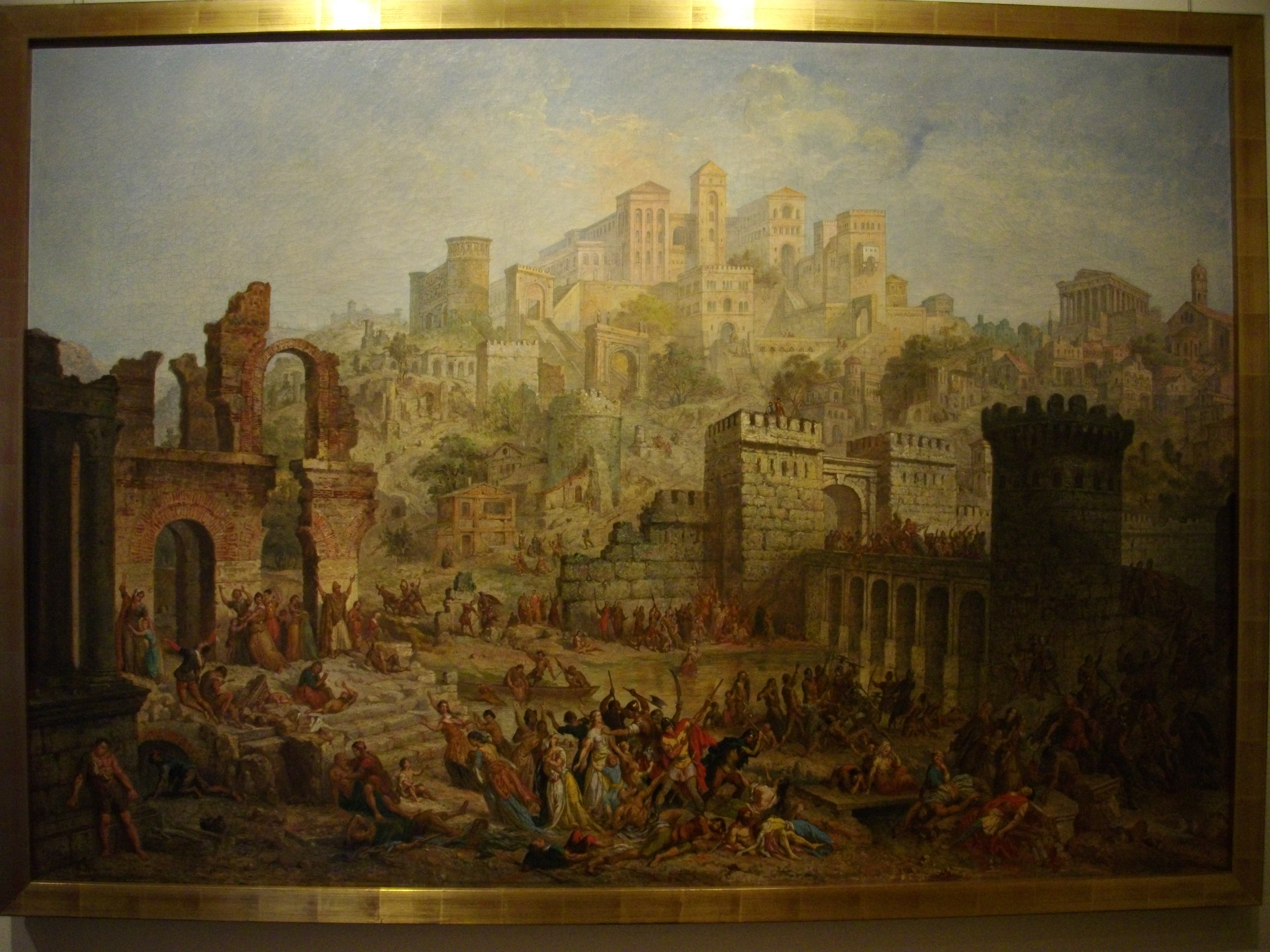 Painting of Auguste Migette (1802-1884), Massacre of Jews in Metz during the First Crusade. Kept in Musées de la Cour d'Or